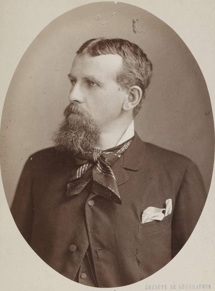 Friedrich Ratzel